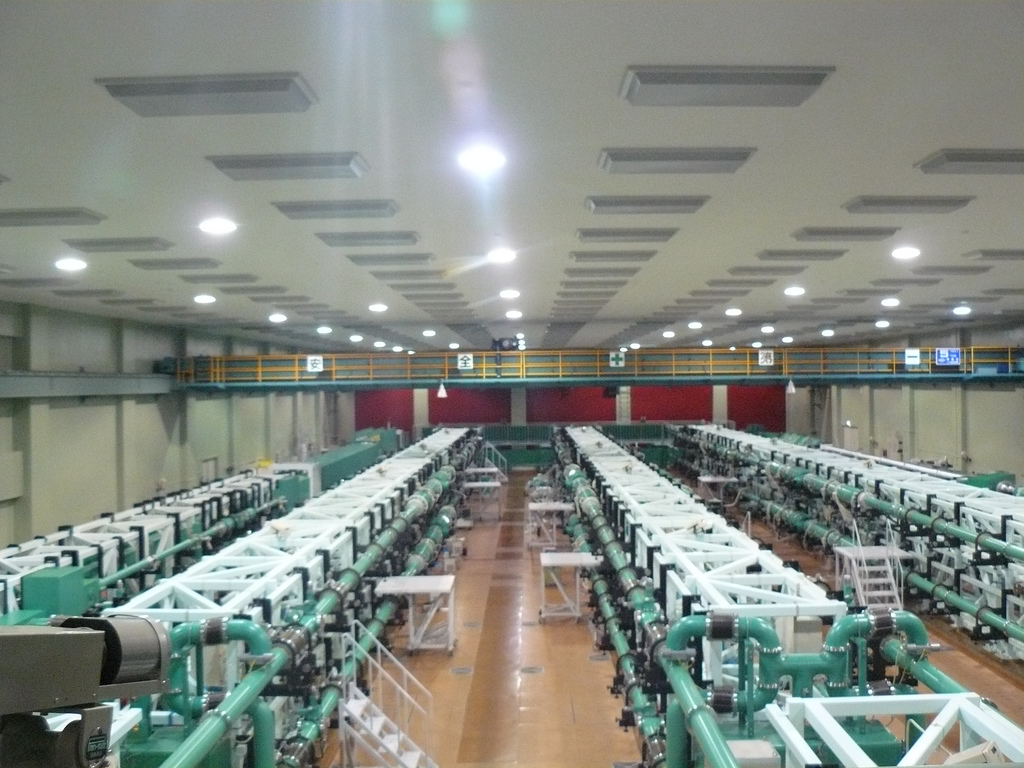 GEKKO XII 激光XII 号レーザー at the Osaka University's Institute for Laser Engineering